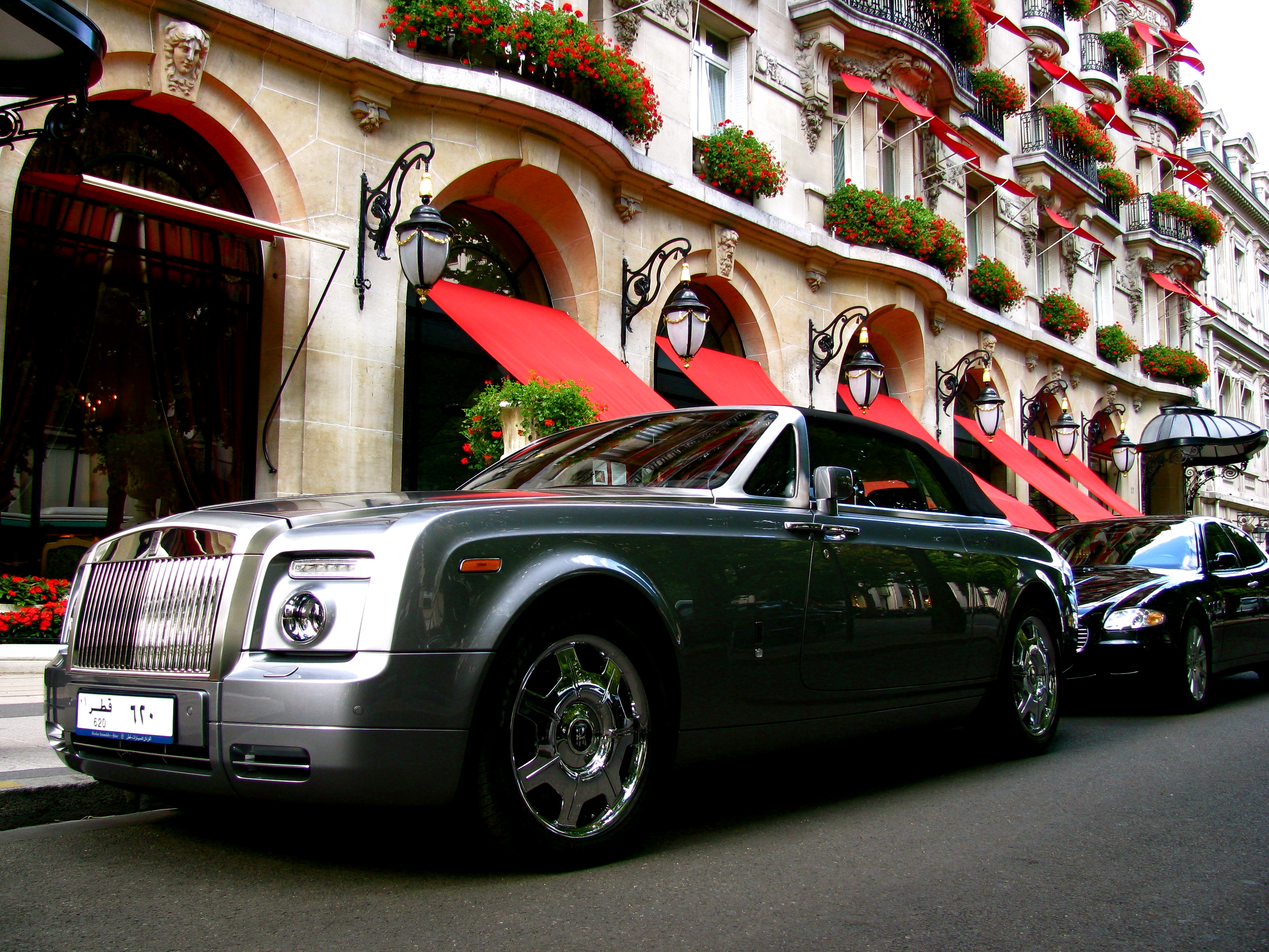 Outside the Plaza Athenee in Paris